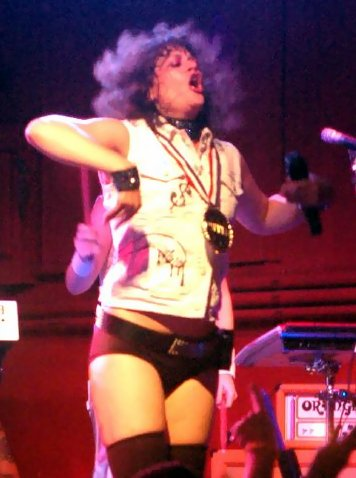 Peaches performing in Edmonton, Alberta, Canada